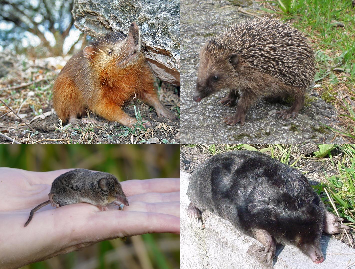 Species from order Eulipotyphla.